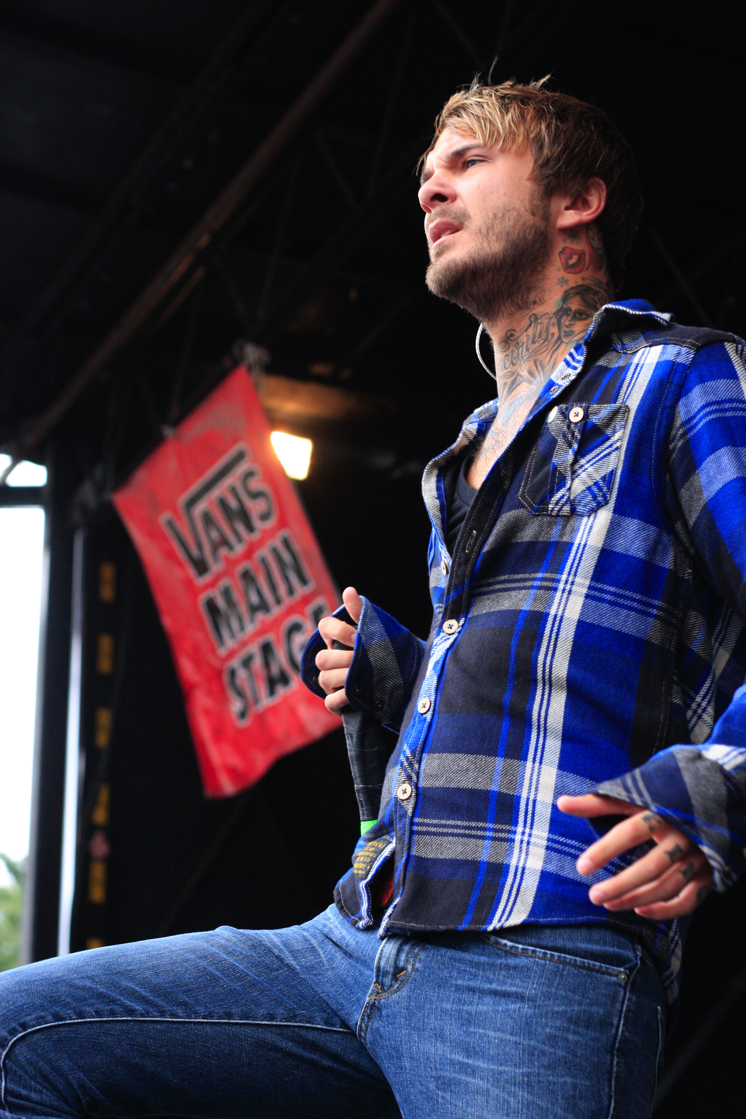 Craig Owens with Chiodos at the Vans Warped Tour 2009 in Boston